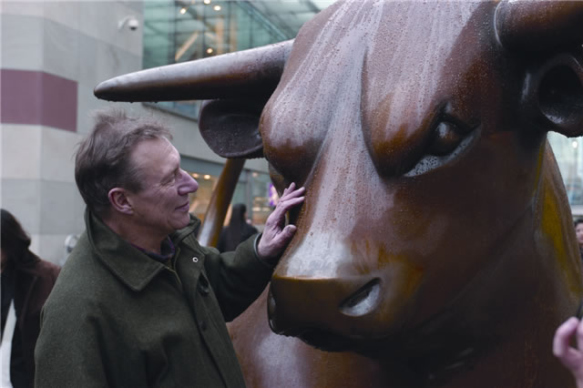 Laurence Broderick with the bronze Birmingham Bull.